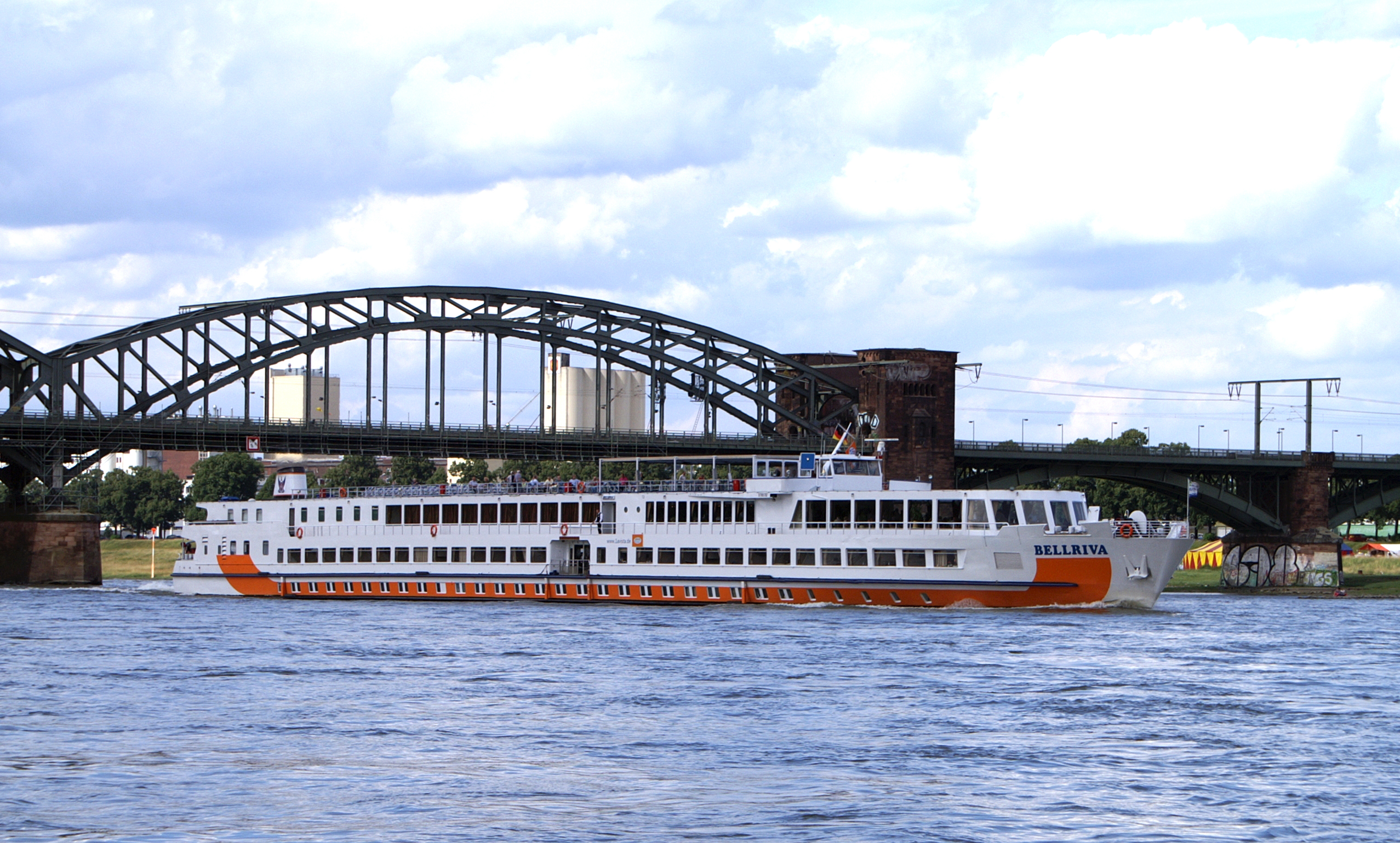 River cruise ship Bellriva in cologne.